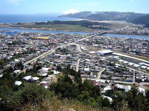 Lebu capital of the Arauco Province and the pacific ocean